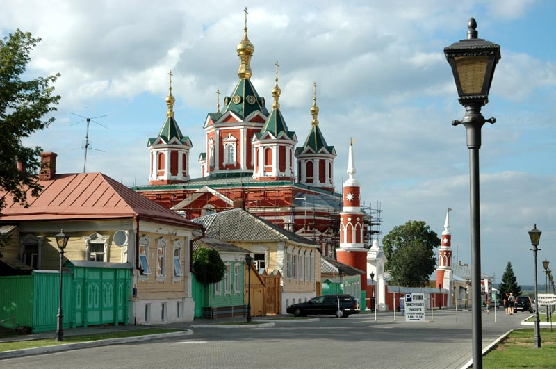 Brusensky Monastery in Kolomna. Krestovozdvizhensky Cathedral